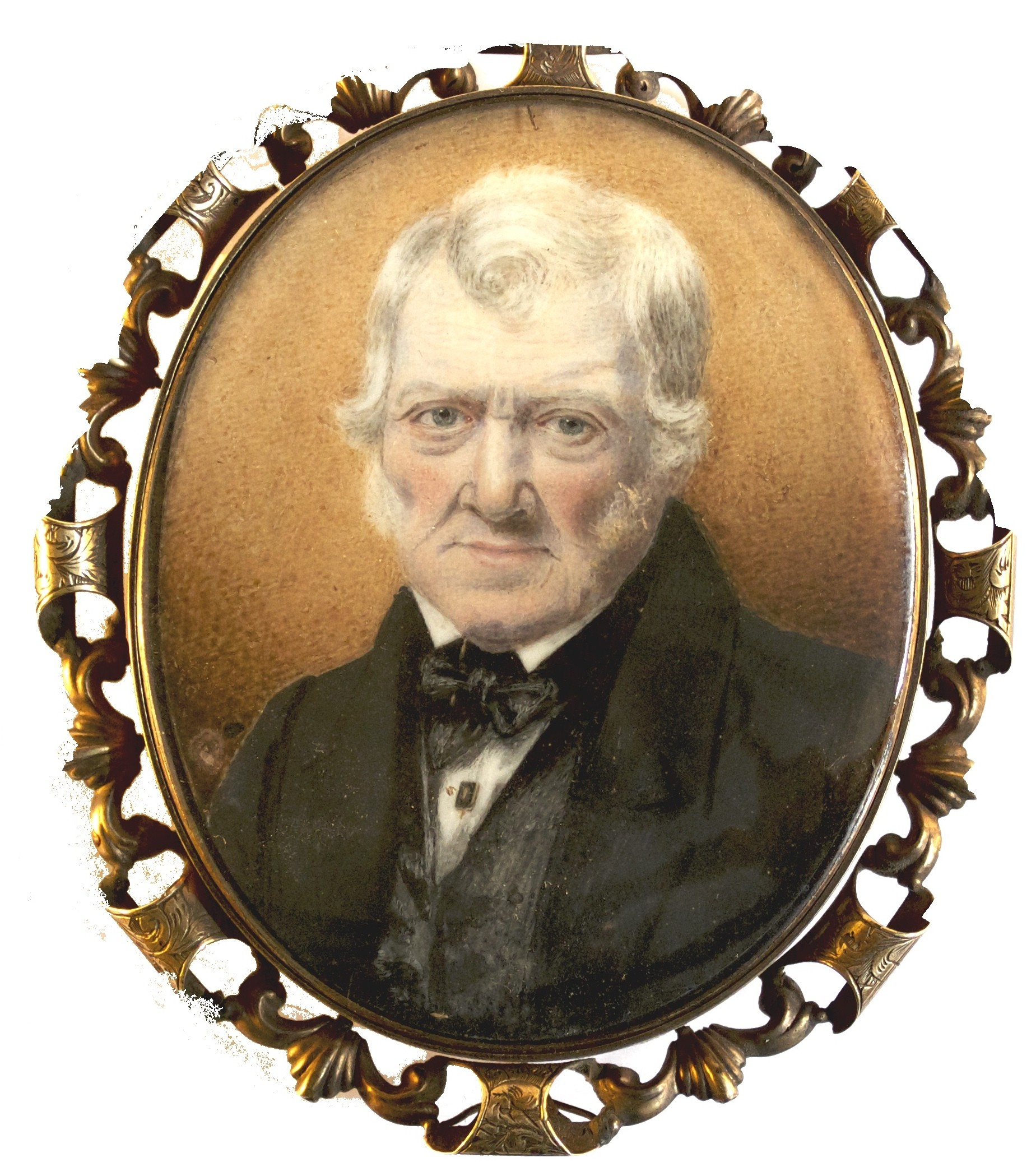 William Douglas-the-artists-father - by Archibald Ramsay Douglas in 1844